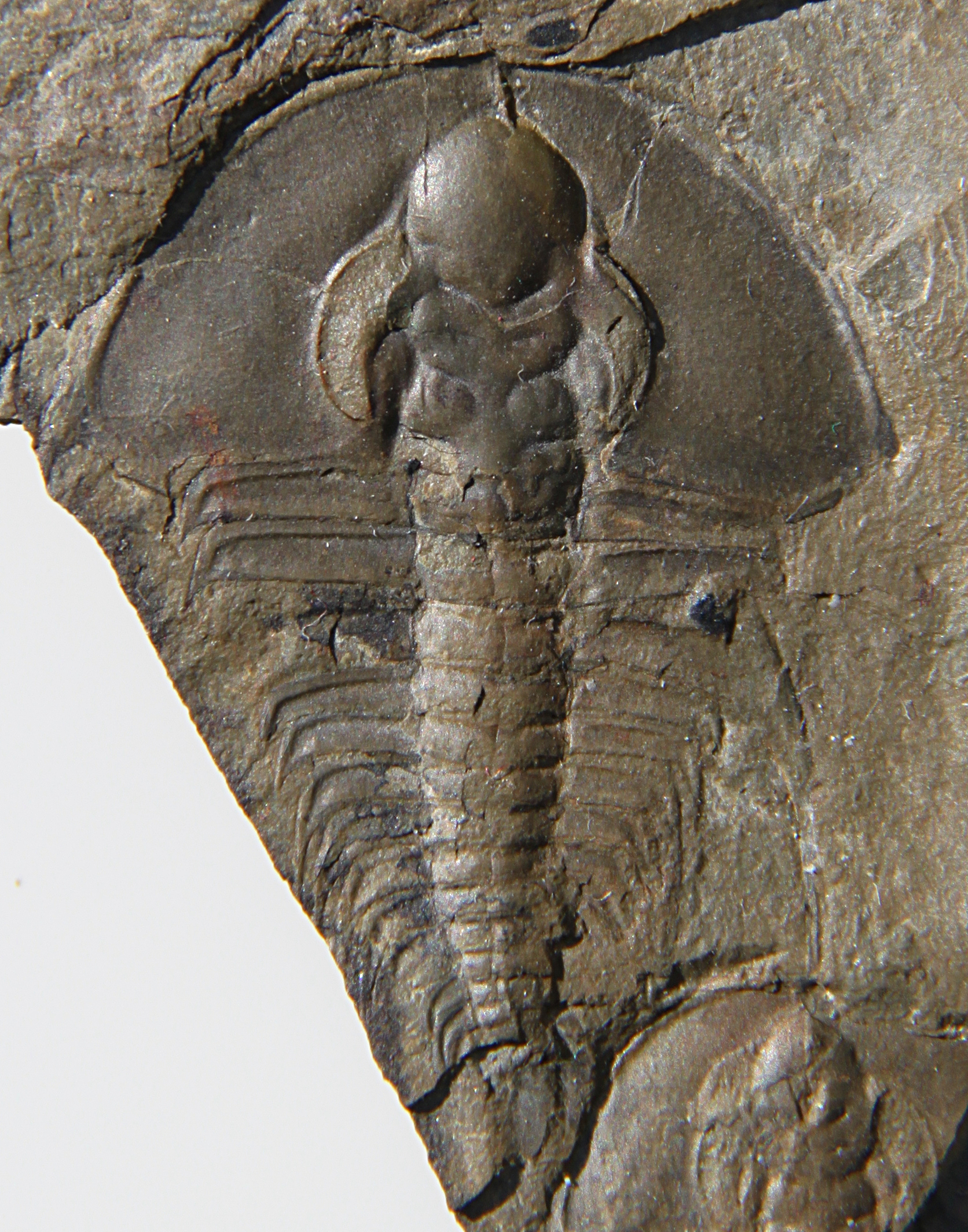 An Olenellus clarki trilobite, Order Redlichiida, Family Olenellidae, 37mm measured along the axis, collected from the Latham Shale, California, USA, from the Lower Cambrian (Toyonian)